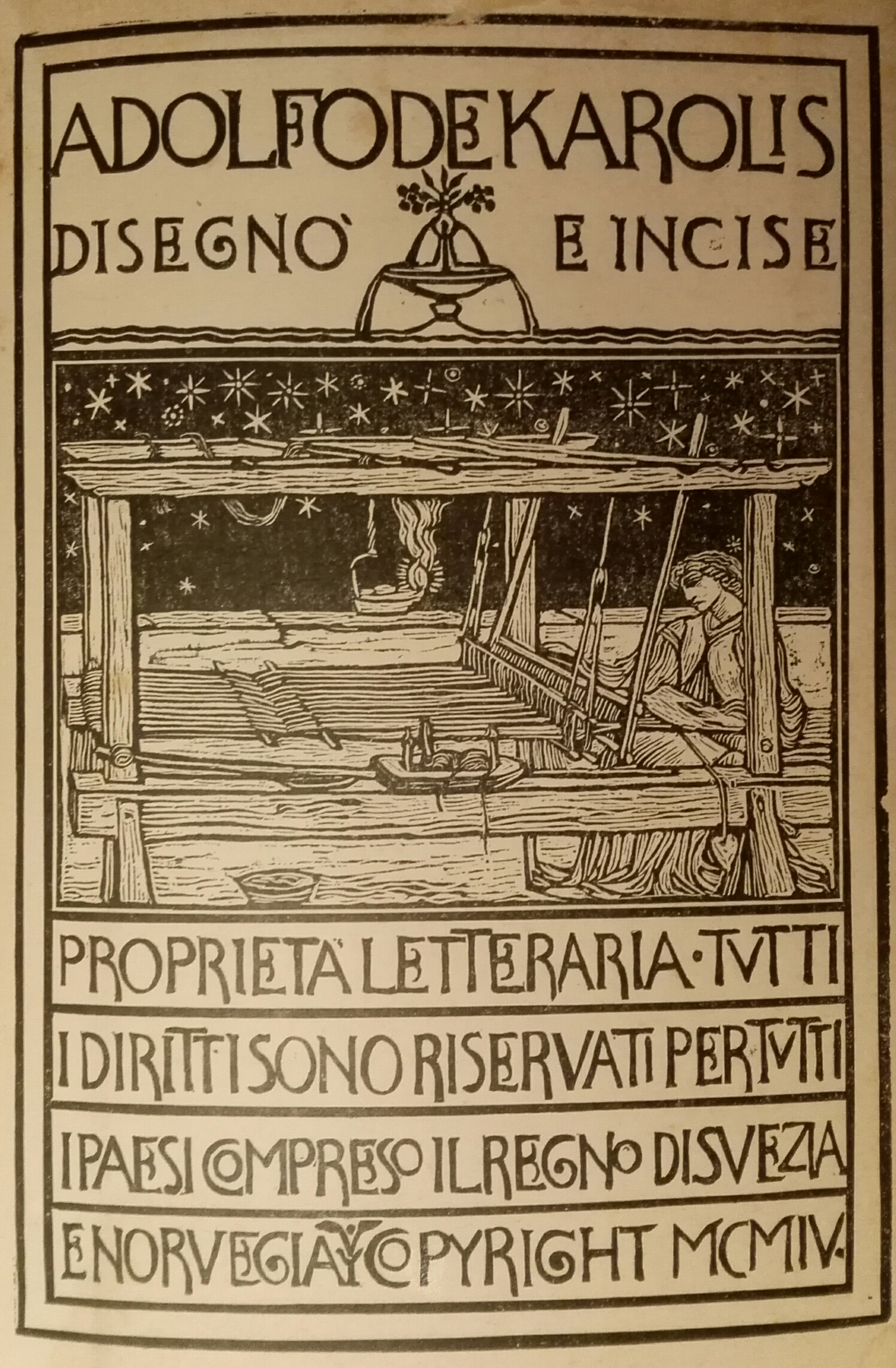 Daughter of Iorio, D'Annunzio, woodcut by Adolfo De Carolis. 1904 Fratelli Treves Editori